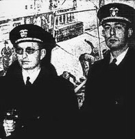 L. Ron Hubbard and Thomas Moulton at the Albina Engine and Machine Works, Portland, Oregon. From the Oregon Journal, April 22, 1943: "Ex-Portlander Hunts U-Boats"